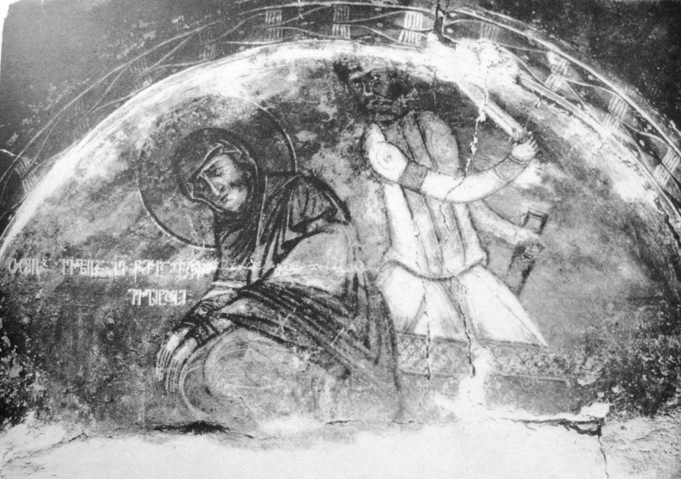 "Martyrdom of St. Julietta", a fragment of the mural painting from the church of Sts. Quiricus and Julietta in Svaneti, Georgia